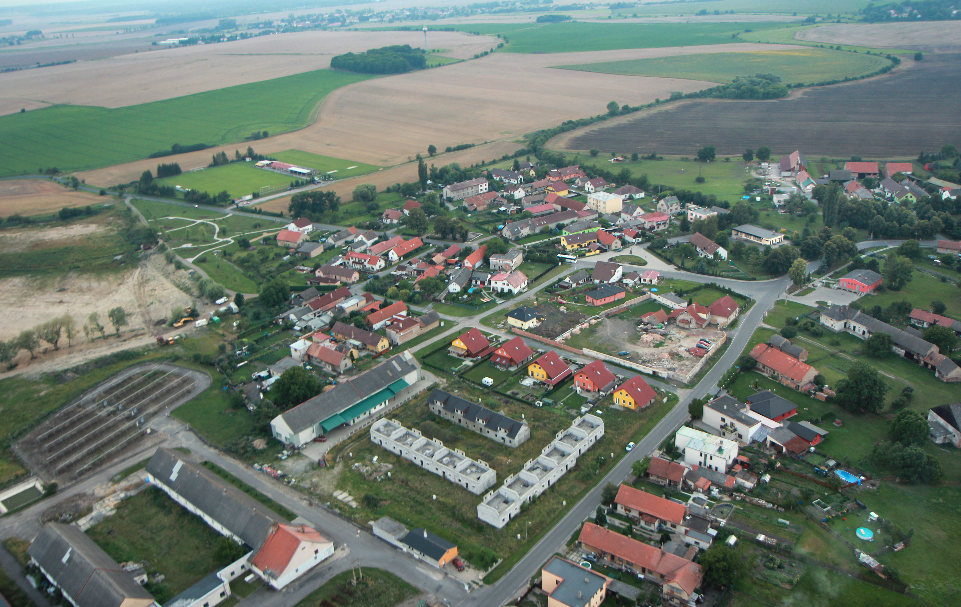 South part of Kosořice village, Czech Republic